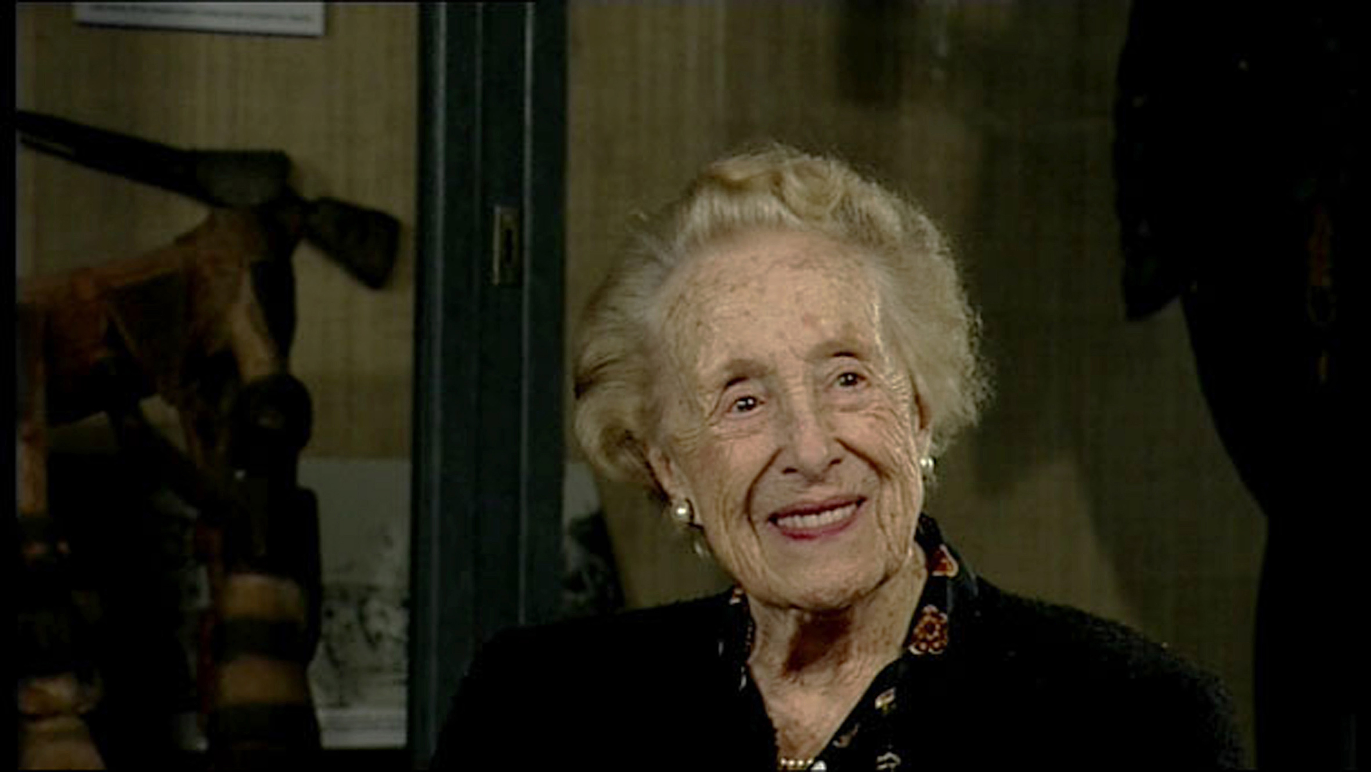 Germaine Dieterlen in the film Paroles